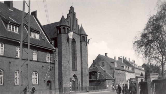 Vintage photo of St. Vencent's Church in Helsingør, Denmark.